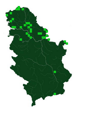 Налази врсте Acrida ungarica у Алцифрон бази инсеката Србије